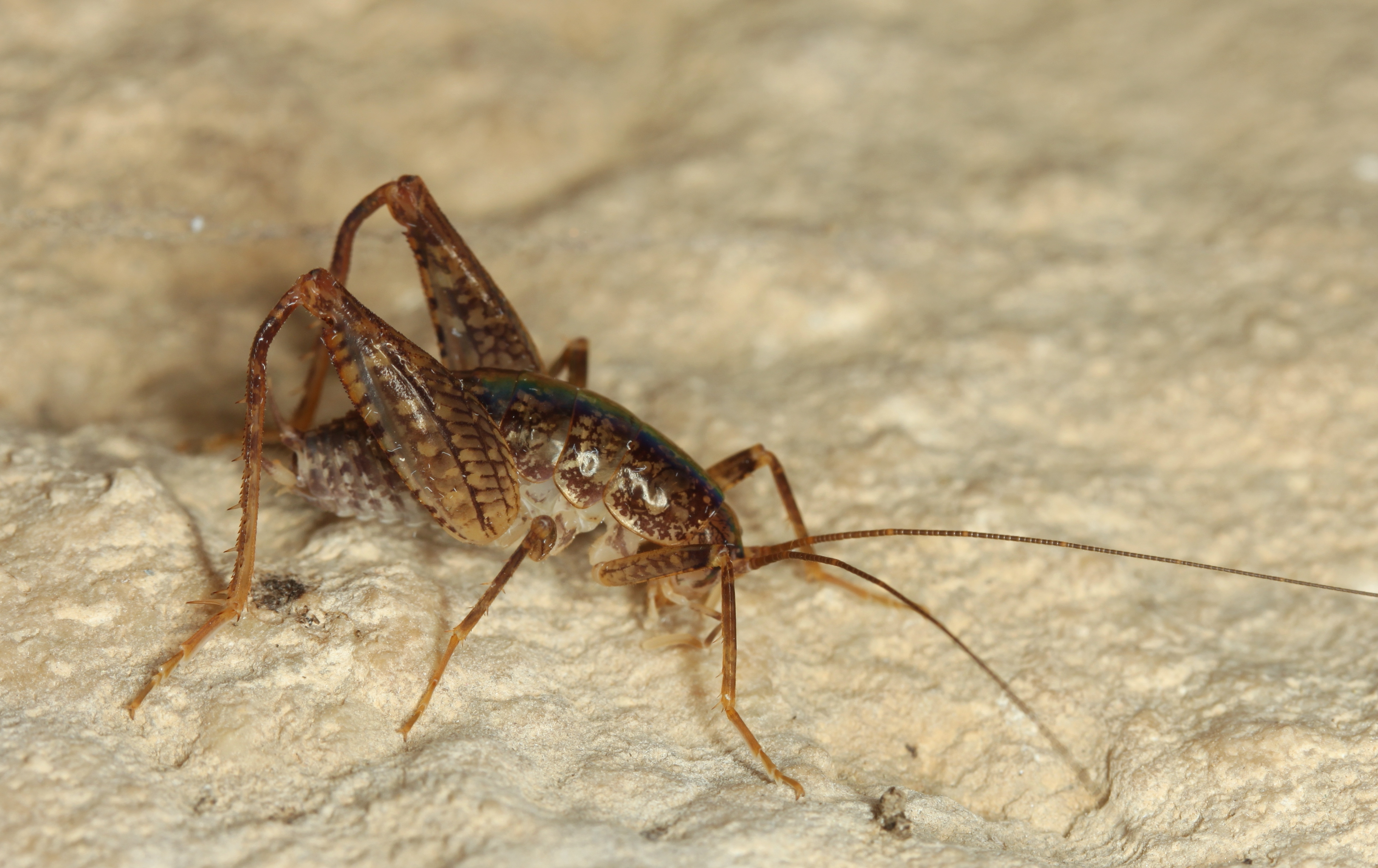 Endemic Cricket